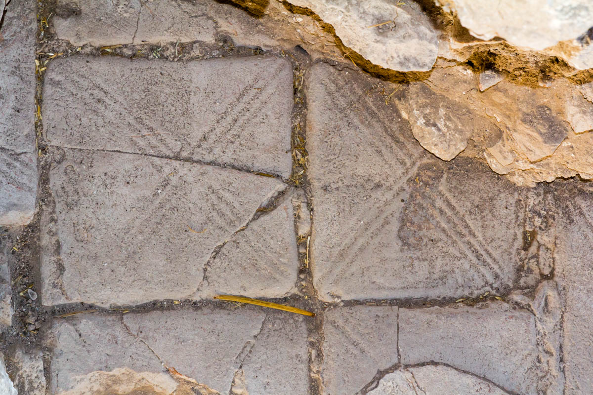 Excavation of Legio VI Ferrata camp near Megiddo, Israel